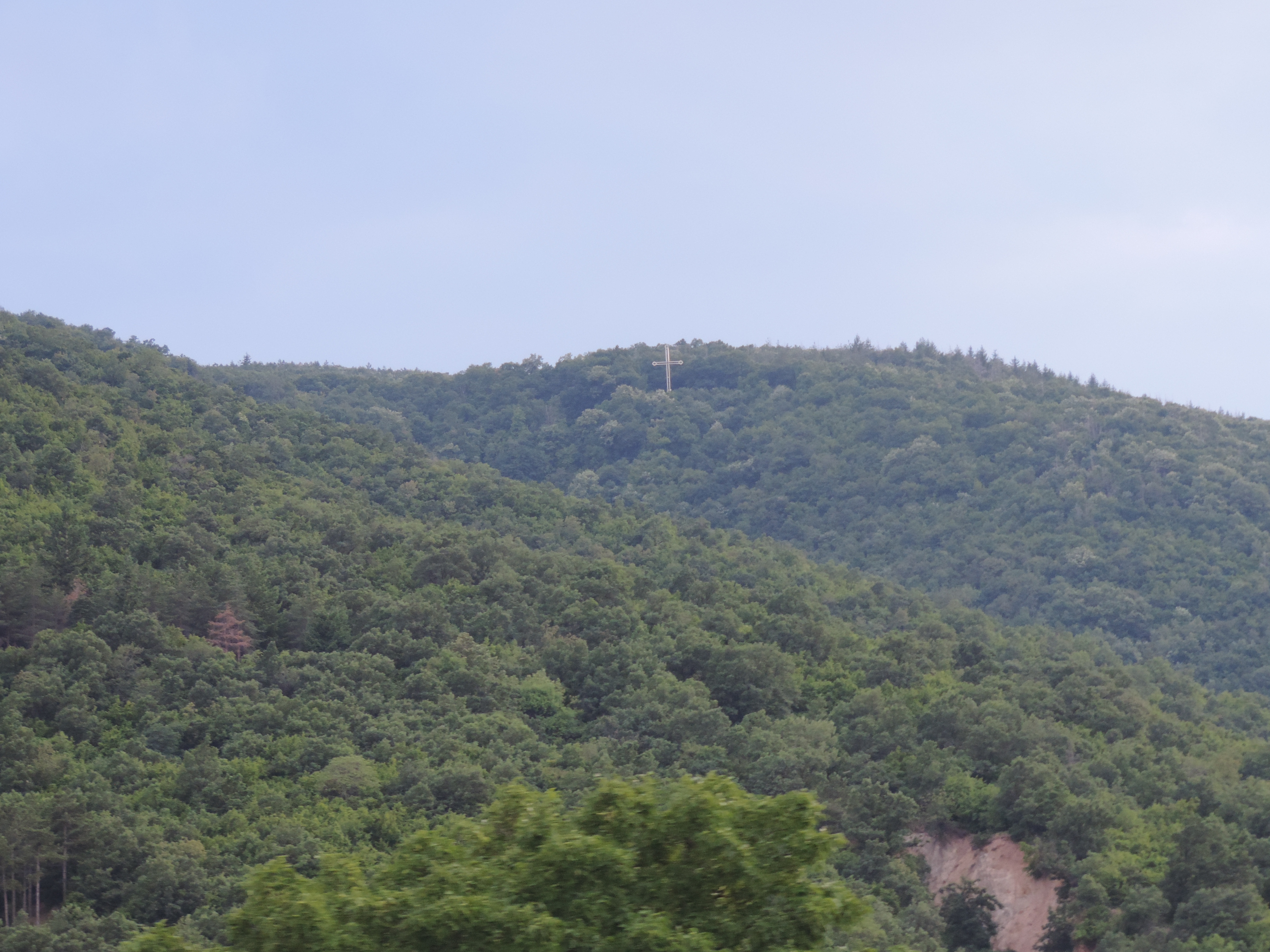 Saint George protected area, Bulgaria